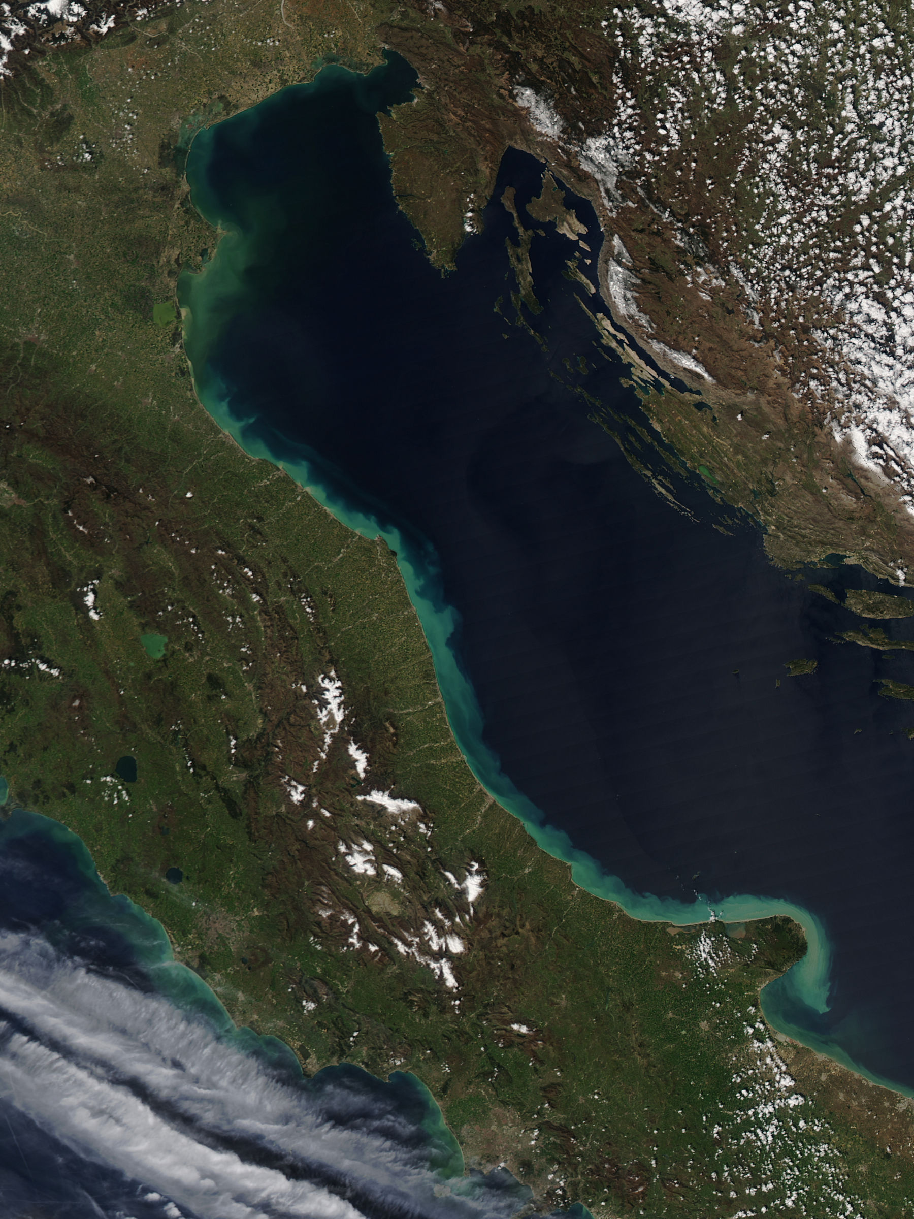 Clouds of tan and blue and green line Italy’s eastern shore in this natural-colour image. The colour is sediment billowing out from the shore into the Adriatic Sea. High concentrations of sediment are tan. As the dirt disperses, the water turns pale blue green. The sediment probably comes from run off after spring rain showers or from melting snow in the Apennine Mountains. Numerous rivers link the mountains to the coast. The rivers are pale, faint tan lines that cut across the green landscape.